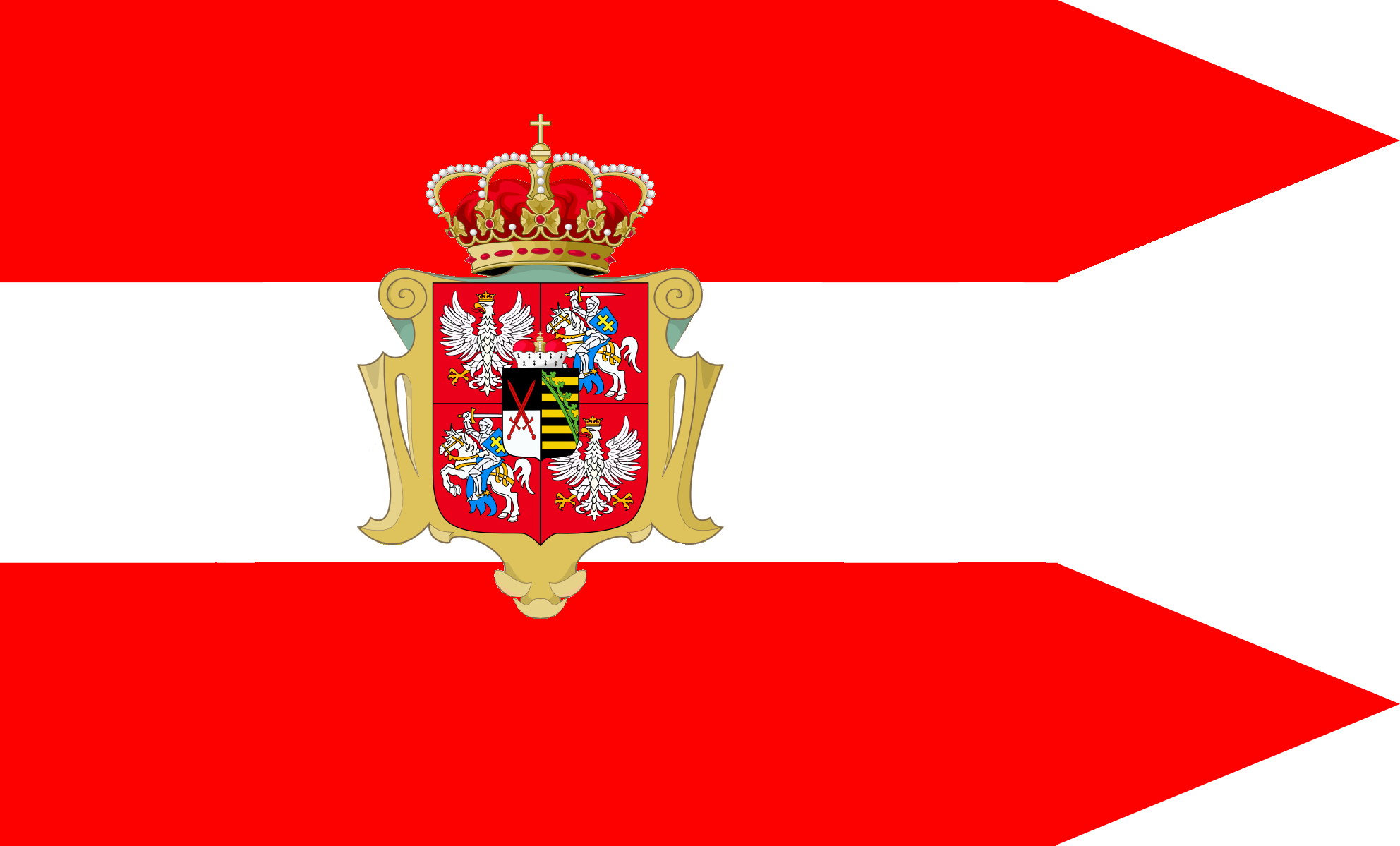 The military banner of "Saxony-Poland" (Poland-Lithuania in a personal union with the Electorate of Saxony).